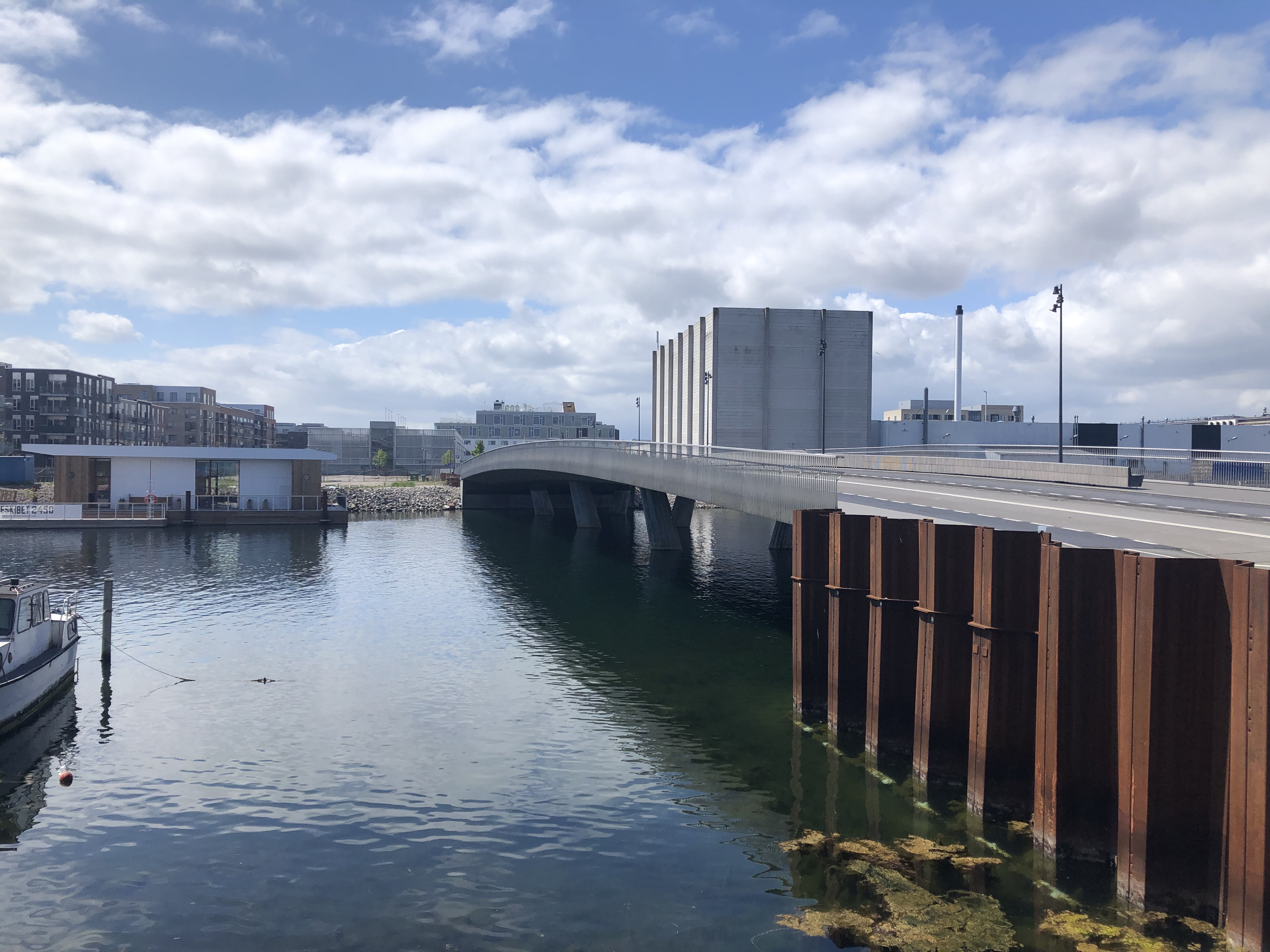 Bridge in Sydhavn, Denmark